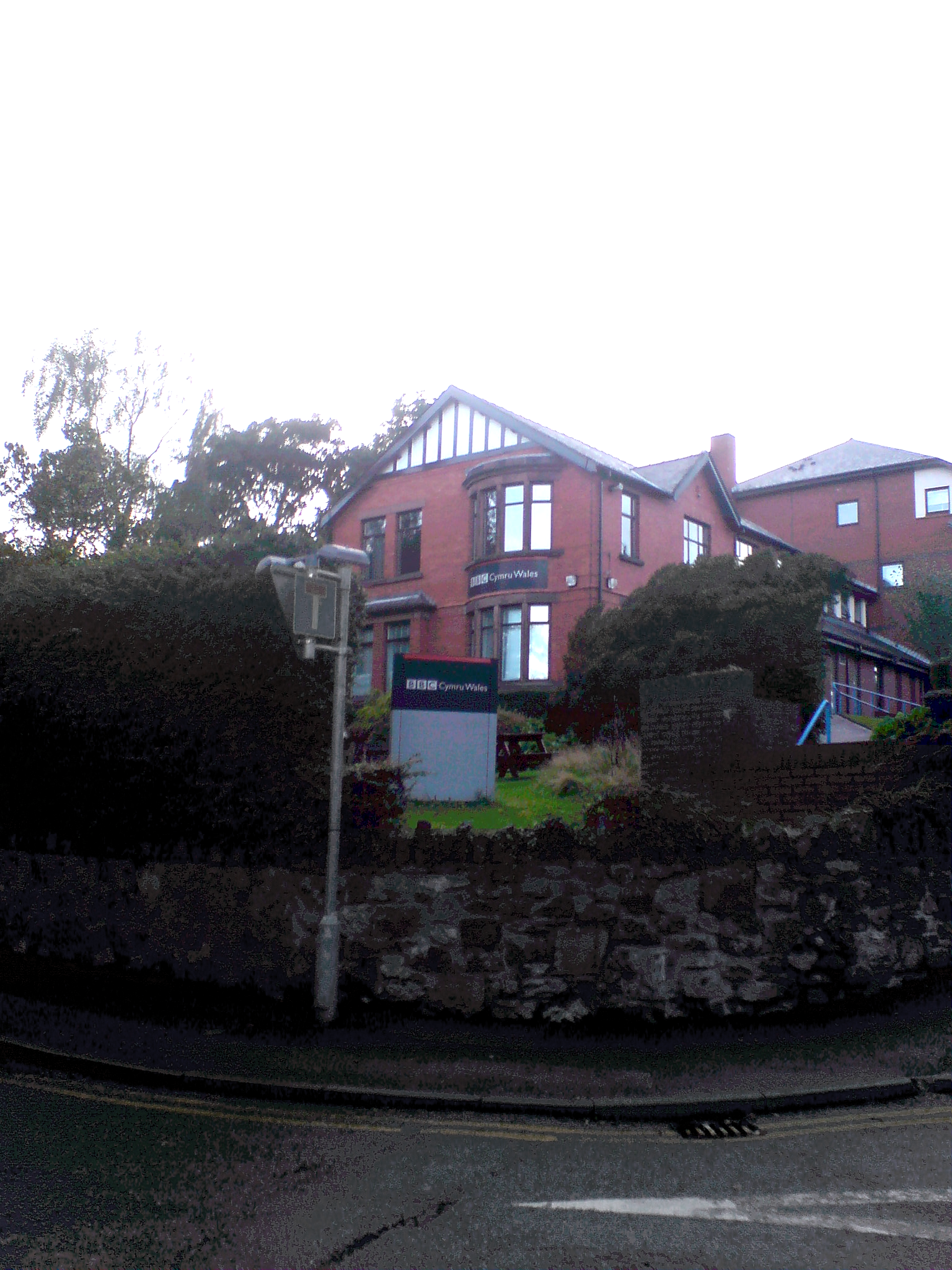 Category:Broadcasting House, BBC Cymru Wales, Bangor, Gwynedd, Wales